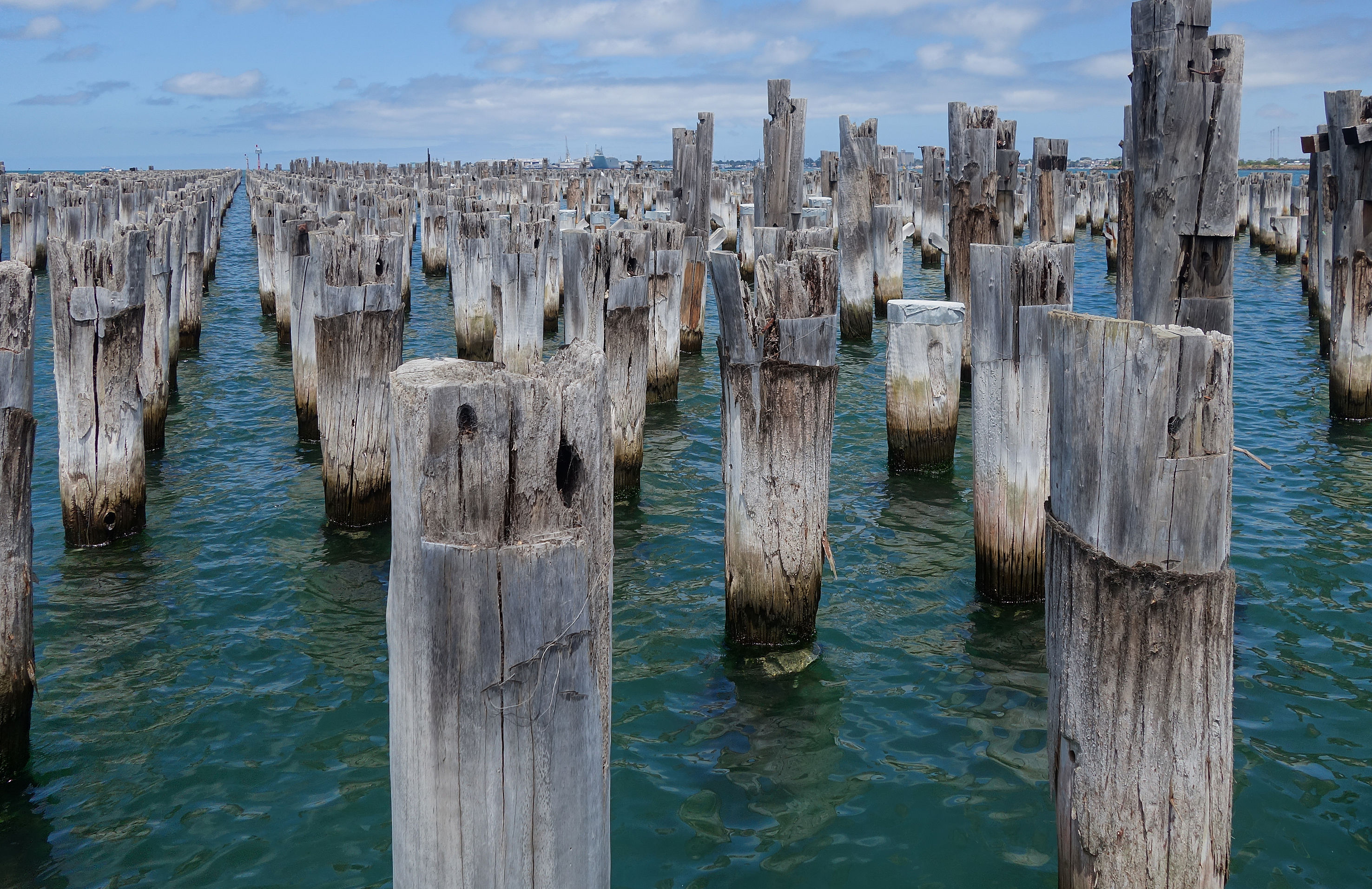 Princes Pier, Melbourne